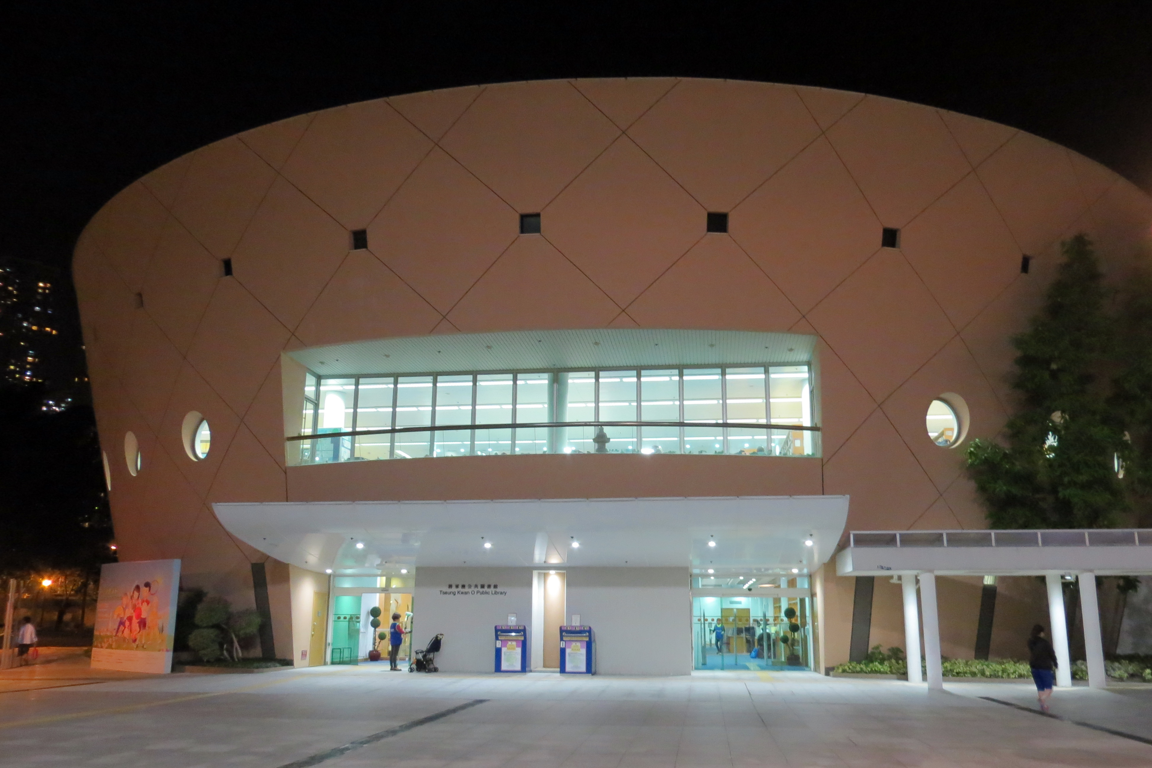 Tseung Kwan O Public Library, 9 Wan Lung Road, Tseung Kwan O, Hong Kong.